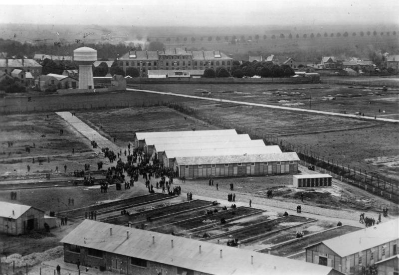 Jewish internment camp near Pithiviers, Loiret, France, in 1941. Picture source : German Federal Archive